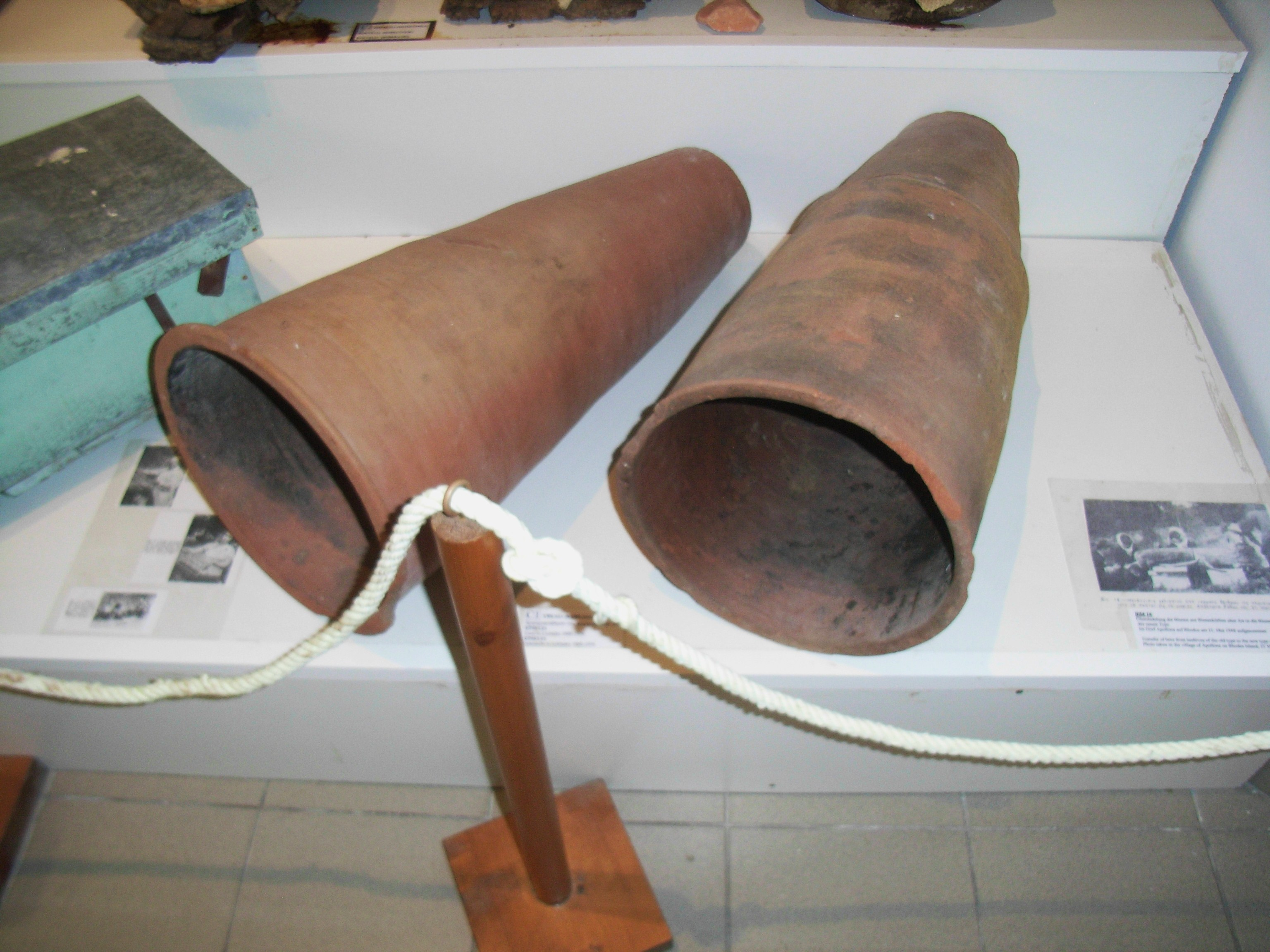 Bee Museum Rhodes Baked Clay Hives